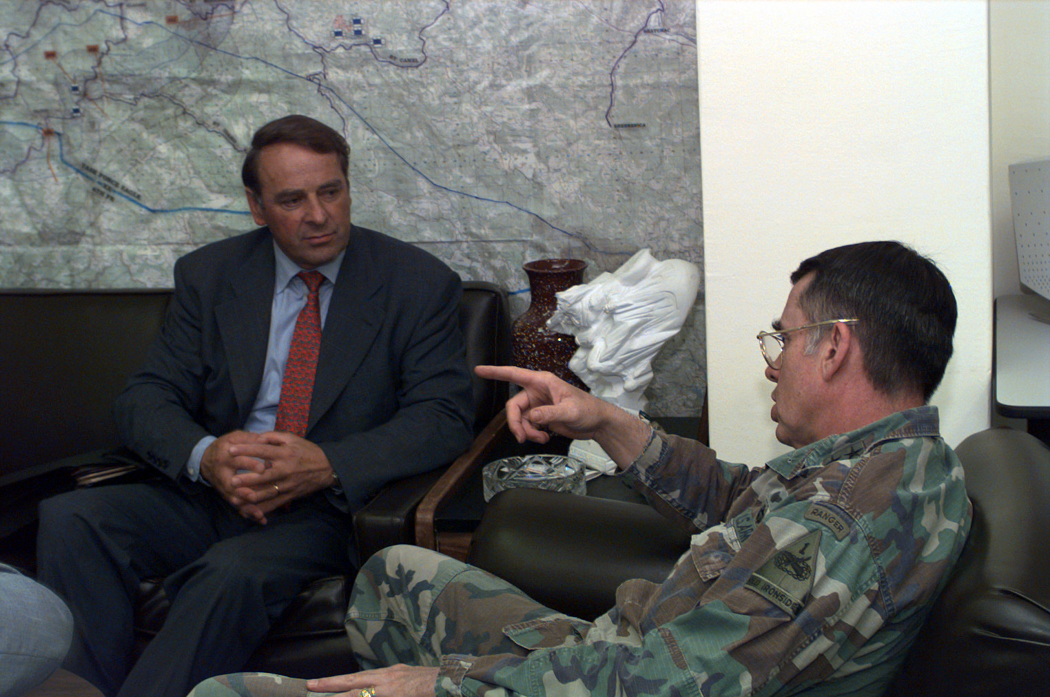 Adolf Ogi, Federal Councillor, head of the Federal Military Department, Switzerland, talks with Major General William L. Nash, Commander First Armored Division, Task Force Eagle, during a visit to Eagle Base located on Tuzla Air Base during Operation Joint Endeavor.